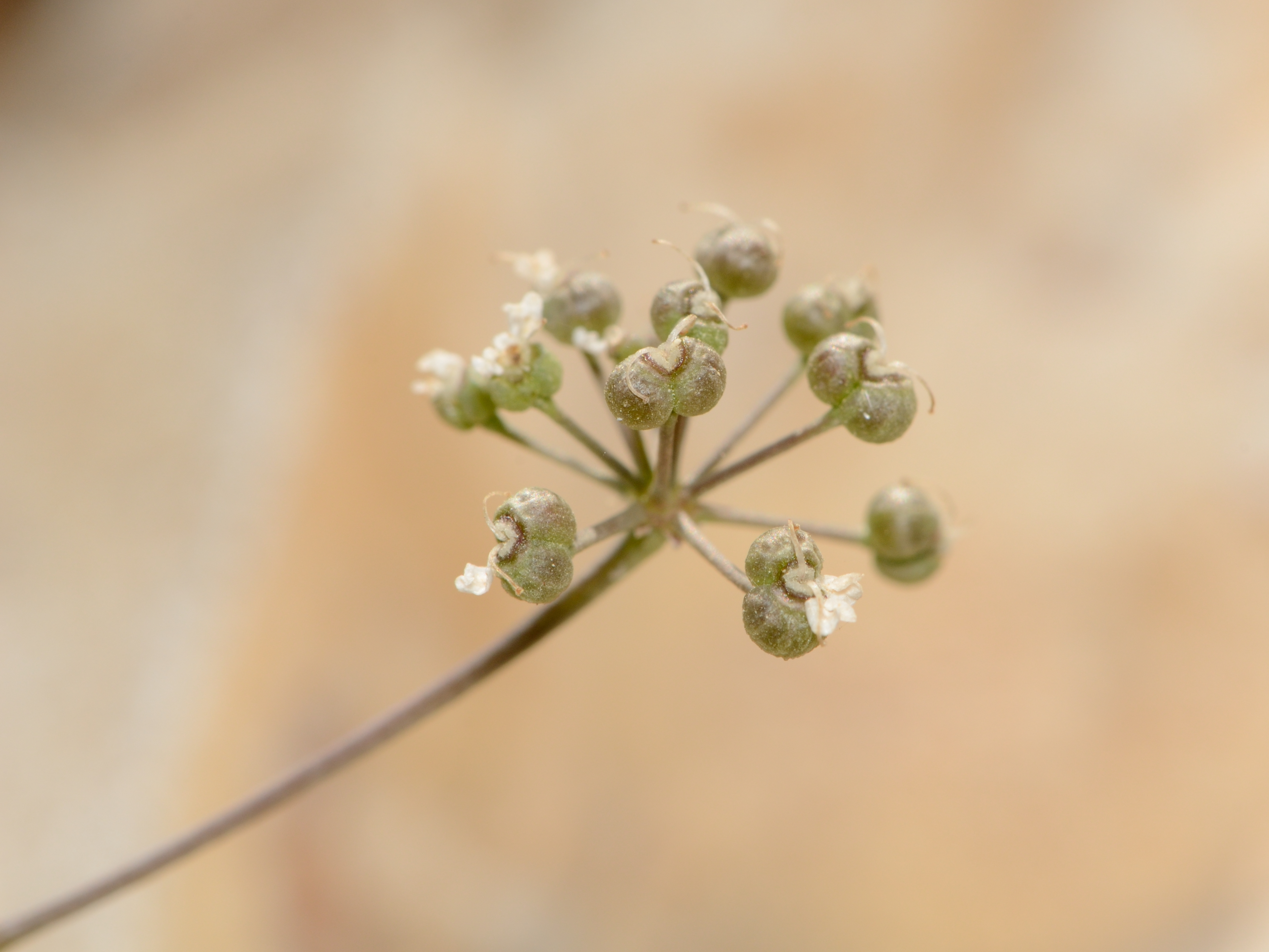 Astomaea seselifolia (A.DC.) Rauschert, Northern Negev, Israel, April 24, 2013.